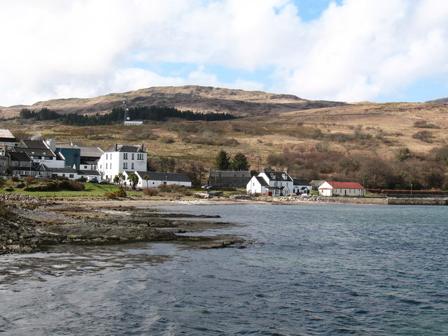 Craighouse Original description: Craighouse - village centre Most of the main buildings in the village can be seen in this shot, including [L-R] The Jura Hotel, the distillery, the shop and the village hall.